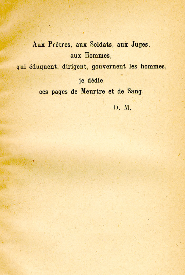 The Torture Garden (1899) by Octave Mirbeau (1848-1917)